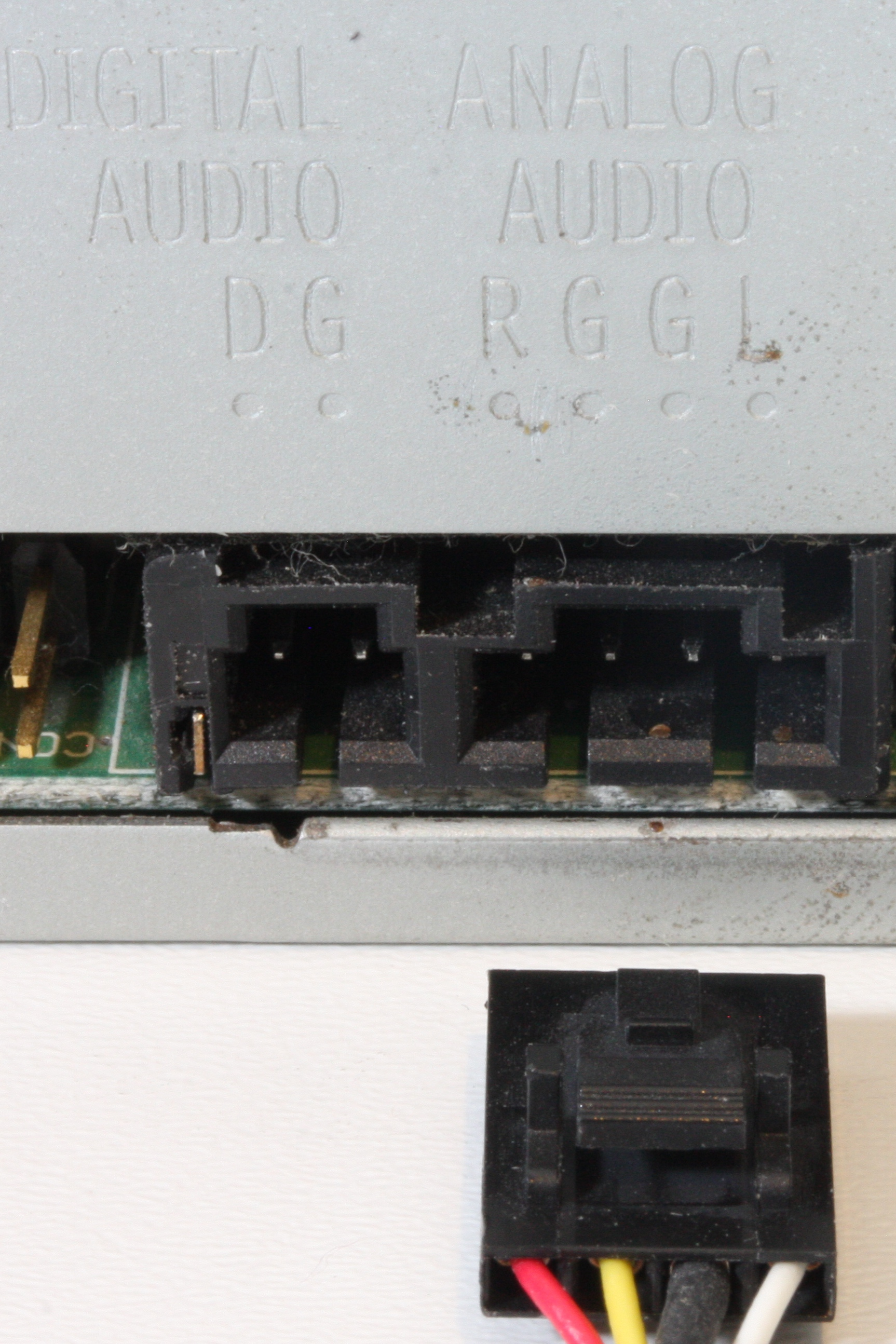 CD-ROM audio connectors